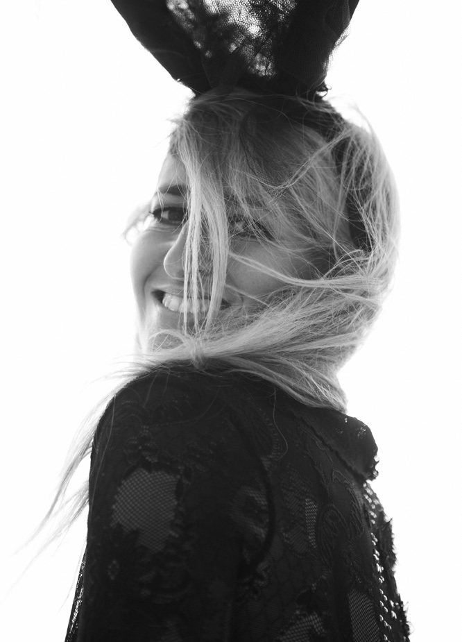 This is an picture of Esther Haase, a photographer from Germany.